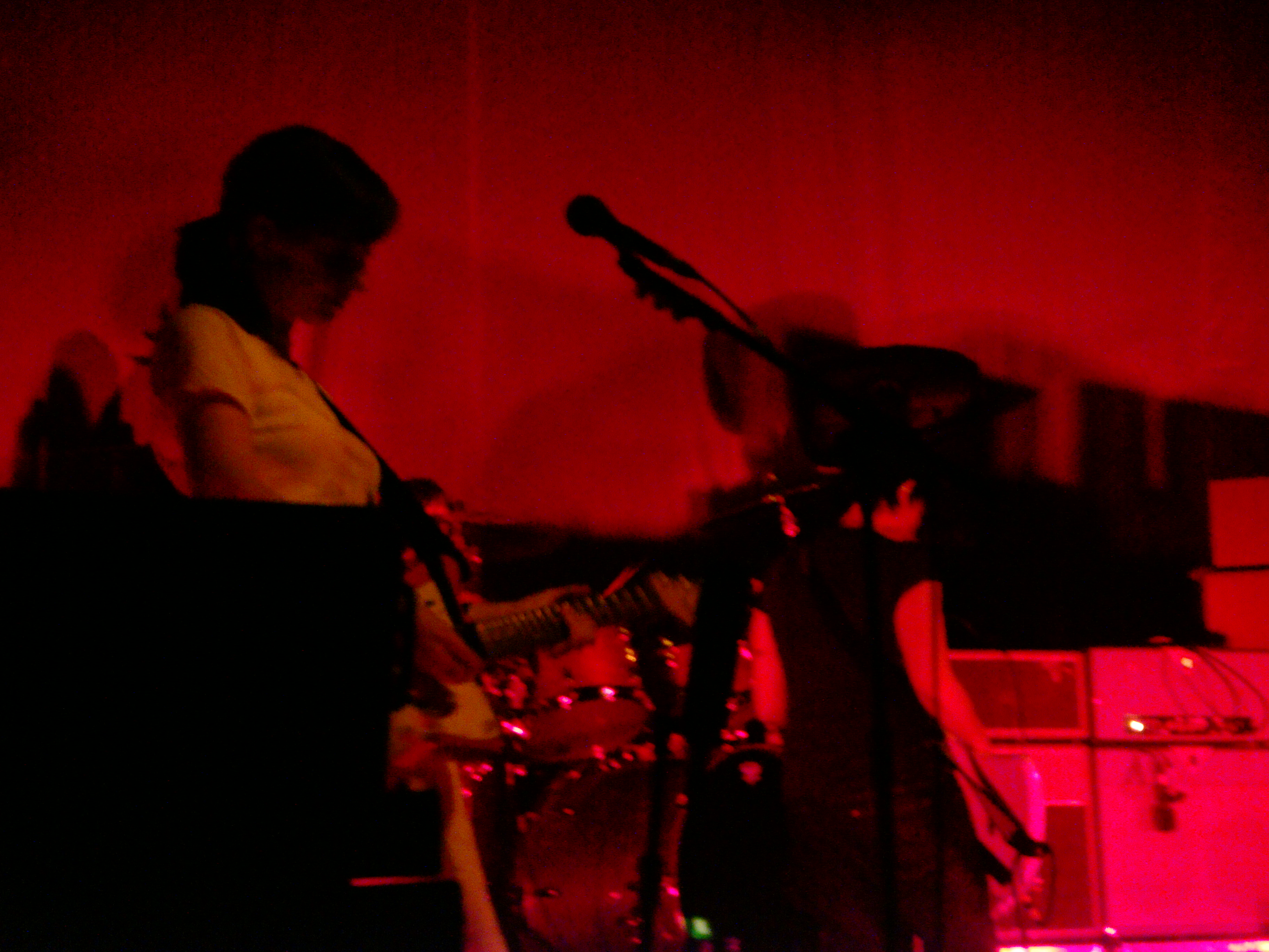 my bloody valentine